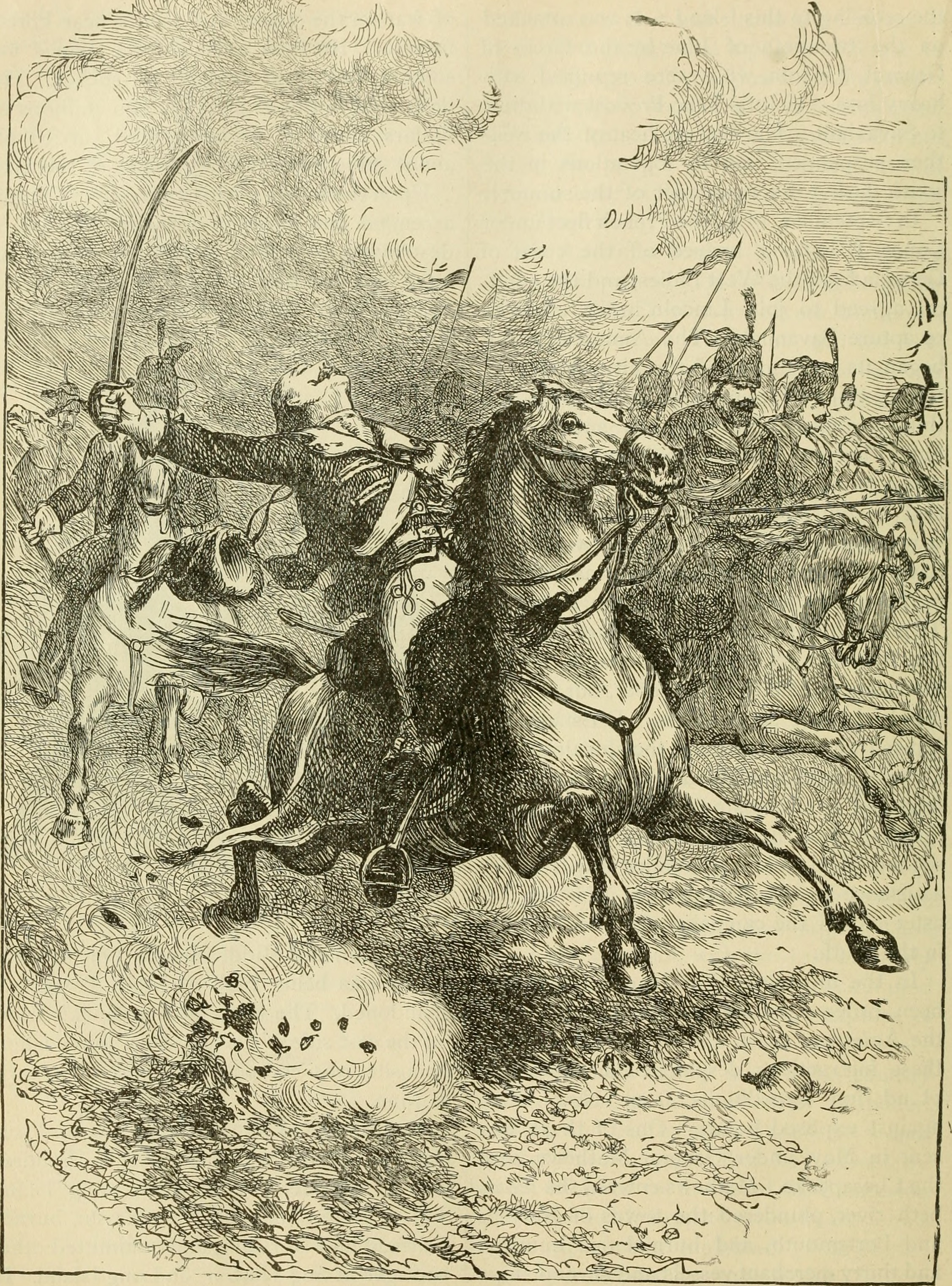 Casmir Pulaski Title: Death of Pulaski.jpg Year: 1901 (1900s) Authors: Northrop, Henry Davenport, 1836-1909 Subjects: Publisher: Philadelphia, National pub co. Text Appearing Before Image: GENERAL BENJAMIN LINCOLN. the Eastern and Middle States. One of these,which was being built at Stony Point, wasabandoned. The work on Verplancks Point,on the east side of the Hudson, immediatelyopposite, was compelled to surrender earlyin June, Returning to New York, Clinton sentGeneral Tryon with twenty-five hundredmen to plunder the coast of Long IslandSound. He plundered New Haven, burnedFairfield and Norwalk, and committed otheroutrages at Sag Harbor, on Long Island. In ,t(lri.^4k~ ..v^^ Text Appearing After Image: 442 GALLANT CHARGE OF COUNT PULASKL AID FROM ABROAD. 443 cue jouise of a few days this inhuman wretchburned two hundred and fifty dwelling-houses, five churches, and one hundred andtwenty-five barns and stores. Many of theinhabitants were cruelly murdered, and anumber of women were outraged by theBritish troops. Tryon would have carriedhis outrages further had he not been recalledto New York by Clinton, who feared thatWashington was about to attack him. The loss of Stony Ponit was a seriousblow to Washington, as it compelled him toestablish a new line of communicationbetween the opposite sides of theHudson by a longer and more tediousroute through the Highlands. Hereceived, therefore, the recapture of thepost from the British at all hazards.The British had greatly strengthenedthe fort, which the Americans had leftunfinished, and the only way in whichit could be captured was hy a surprise.It was a desperate undertaking, andWashington proposed to General An-thony Wayne to attempt it. Wa